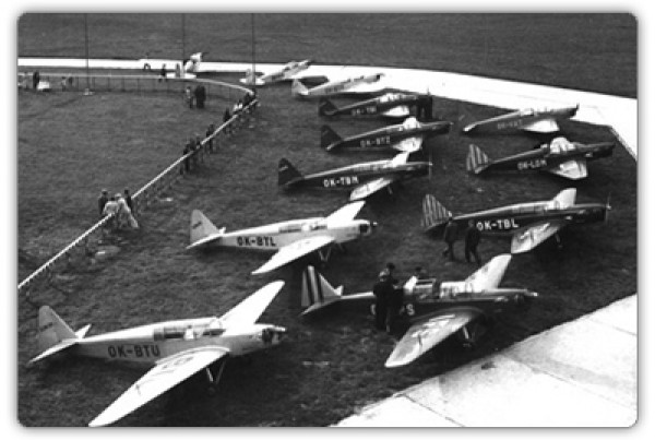 Zlin XII on aerodrom in city Zlin, differenty colored